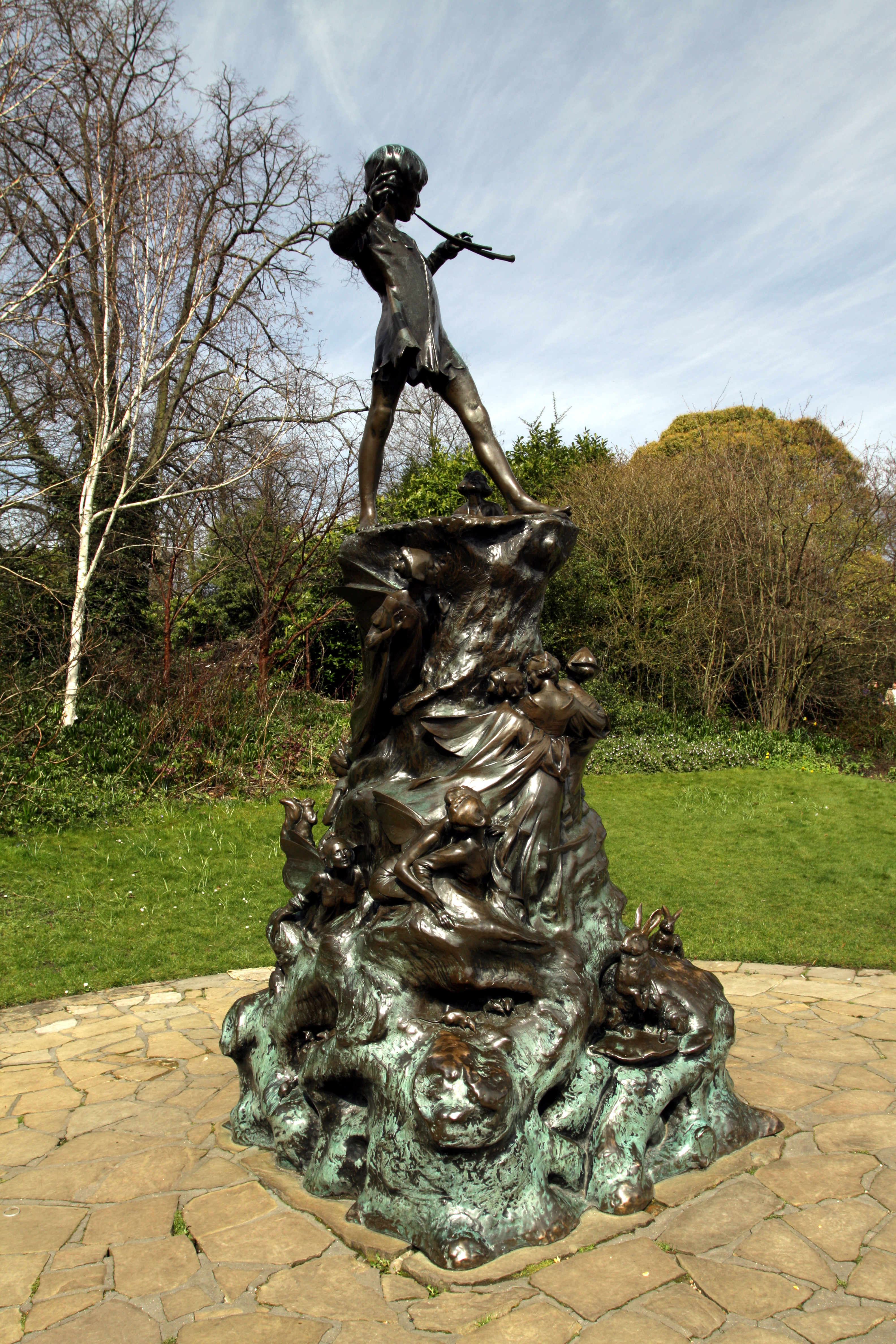 Peter Pan statue in Kensington Gardens, Hyde Park in the City of Westminster in London, Great Britain. The making of this file was supported by Wikimedia UK.